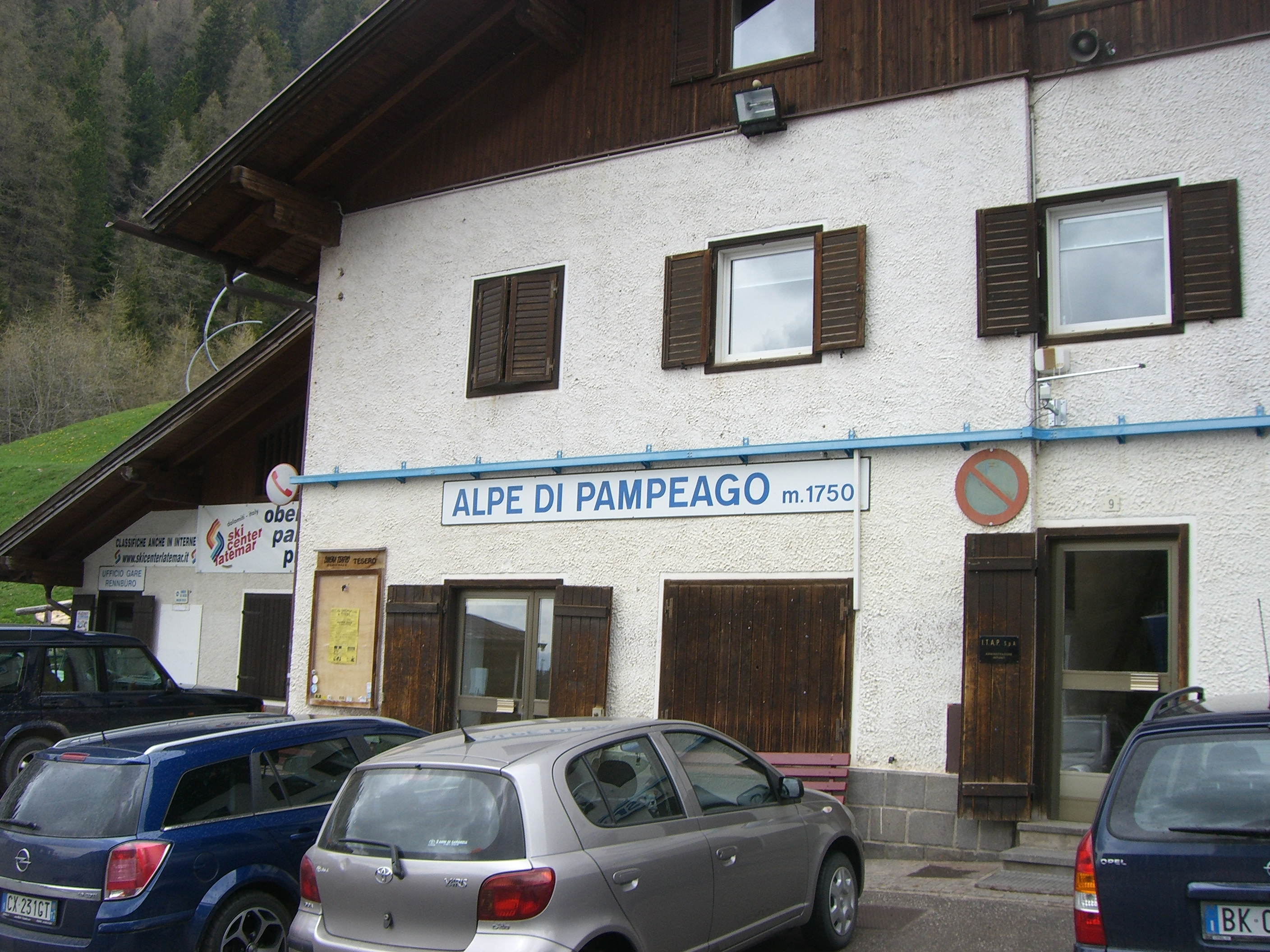 Alpe di Pampeago (1750m) - not the summit! This is the end of the paved road, it continues unpaved.